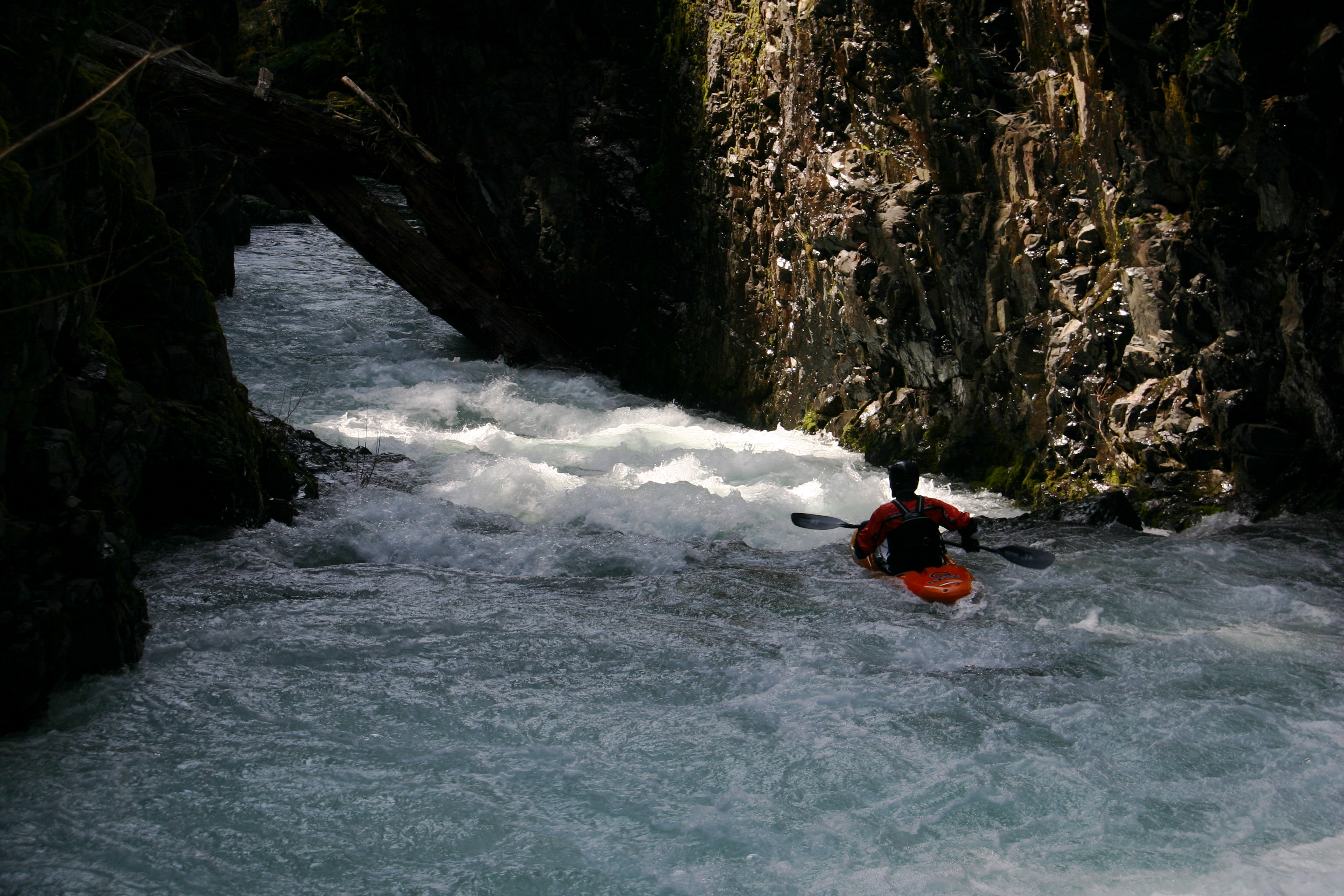 Kayaker paddling Dragon's Back on the East Fork Lewis River, Washington, USA